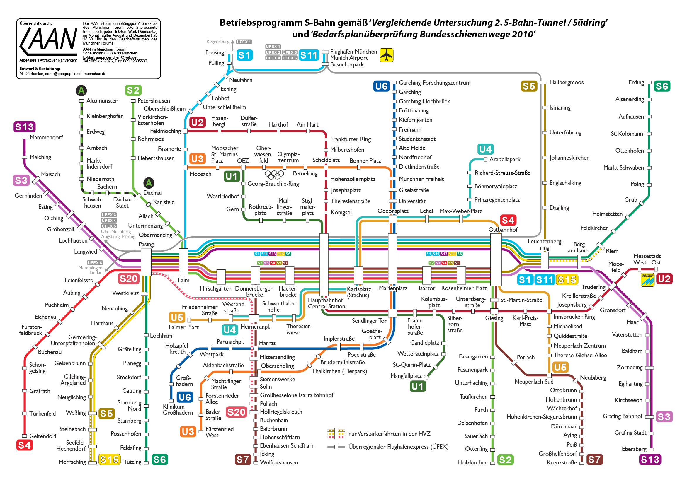 Planning variant "The Second Tunnel" for an additional Rapit Transit City Crossing in Munich